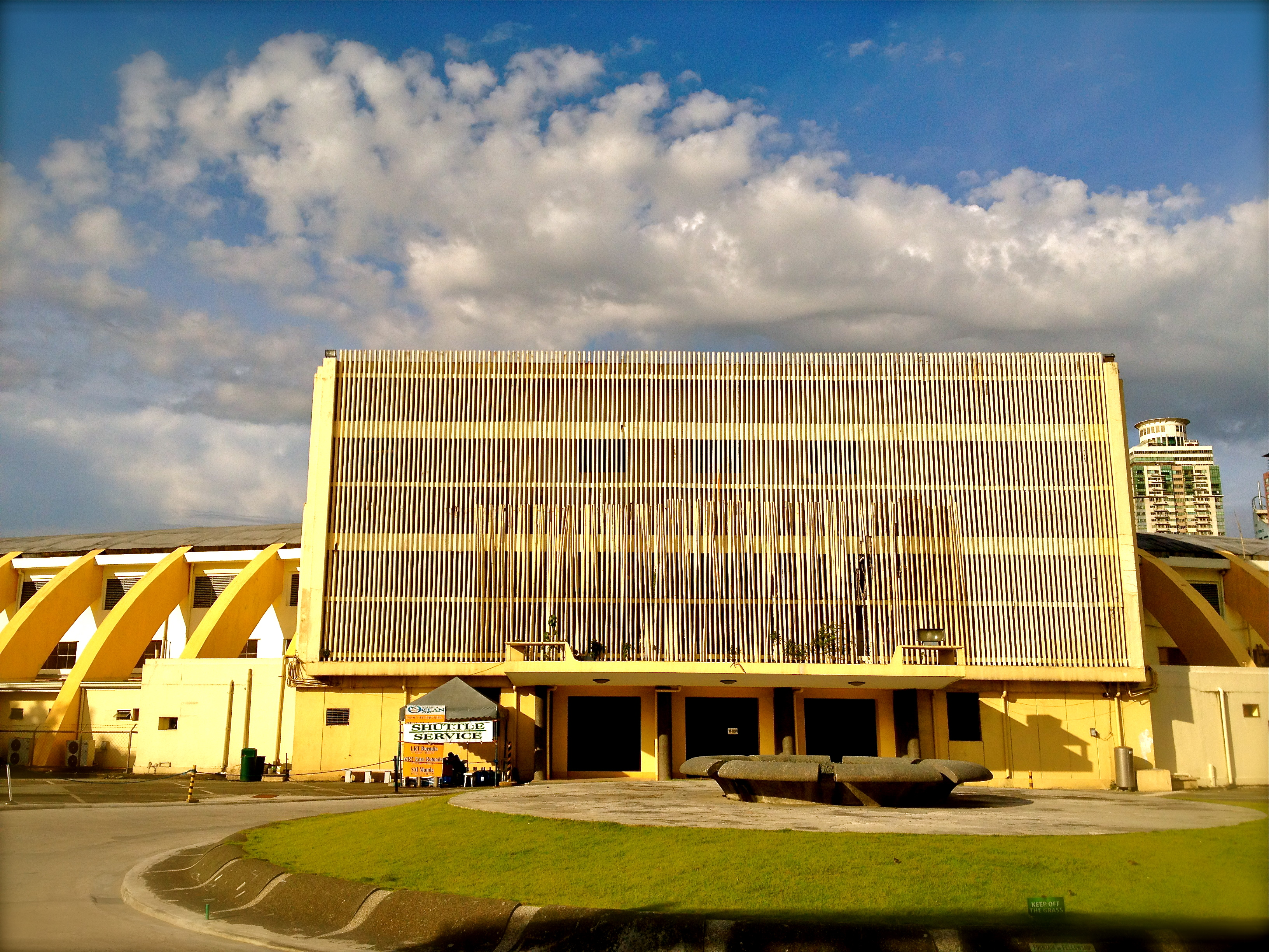 This is the back of the Quirino Grandstand in Manila which I think is architecturally more interesting then the front. It was first called the Independence Grandstand and built in 1949. It was the site of the presidential inaugurations of President Elpidio Quirino, after whom the grandstand was renamed. Other presidents followed: Ramon Magsaysay (1953), Carlos P. Garcia (1957), Diosdado Macapagal (1961), Ferdinand Marcos (1965 and 1969), Fidel Ramos (1992) and Benigno “Noynoy” Aquino III (2010).